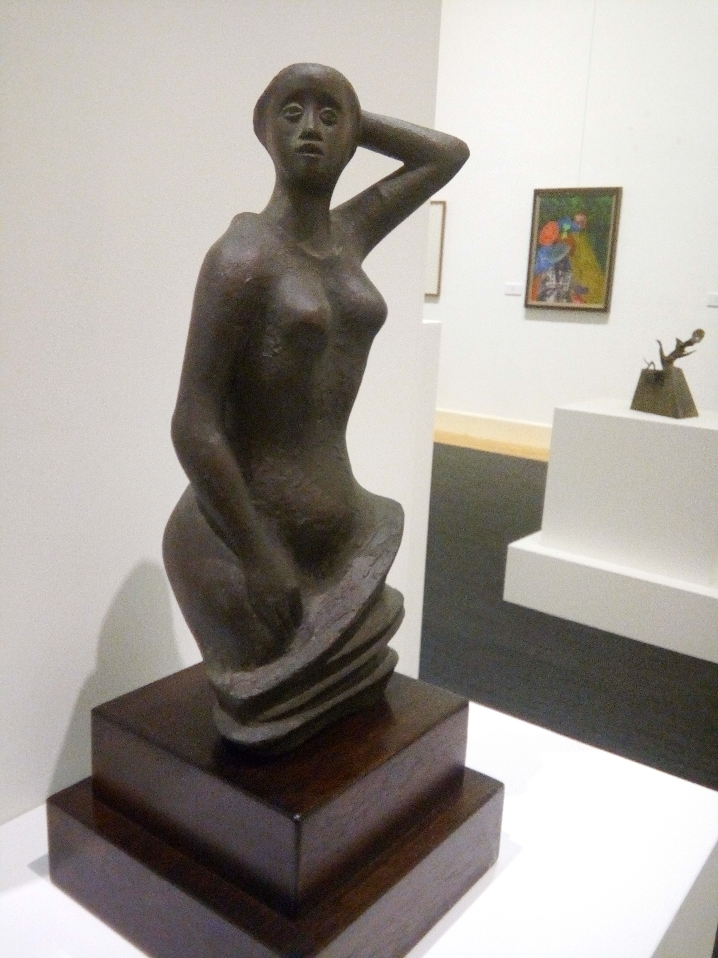 HKU 香港大學 美術博物館 University Museum and Art Gallery UMAG 金賽 the Kinsey African American Art and History Collection